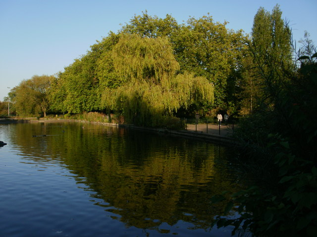 Lake reflections in Finsbury Park